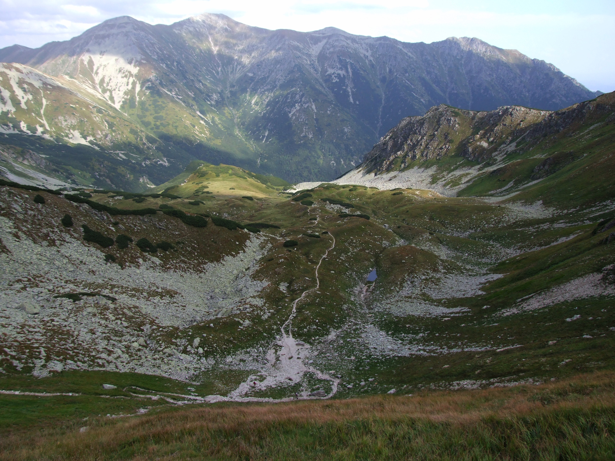 Otargańce, Jamnicka Dolina (West Tatra Mountains)